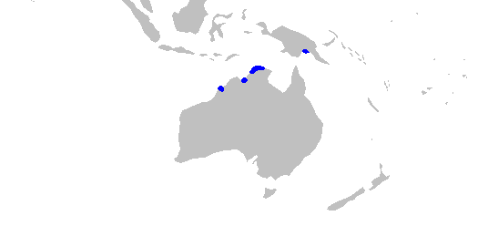 Distribution of the northern river shark (Glyphis garricki), based on Compagno, White, and Last (2008).